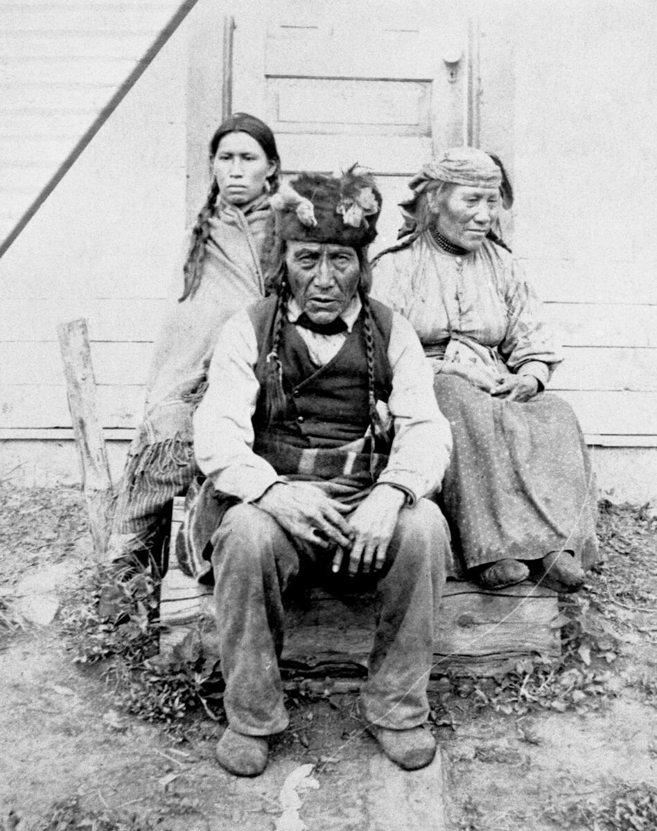 Beaver (Dunneza) chief and family Peace River area Alberta NA-1440-8